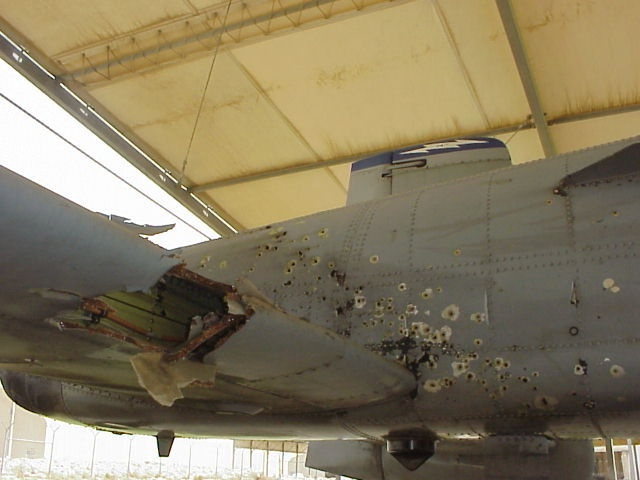 A heavily damaged A-10 Warthog which was successfully landed back at a USAF Air base by pilot "Killer Chick" Kim Campbell. Damage was sustained over Baghdad in the spring of 2003.